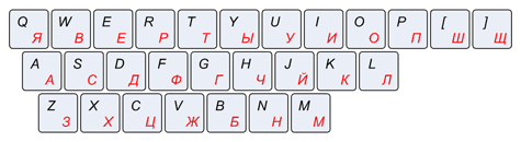 Russian Phonetic Keyboard layout image